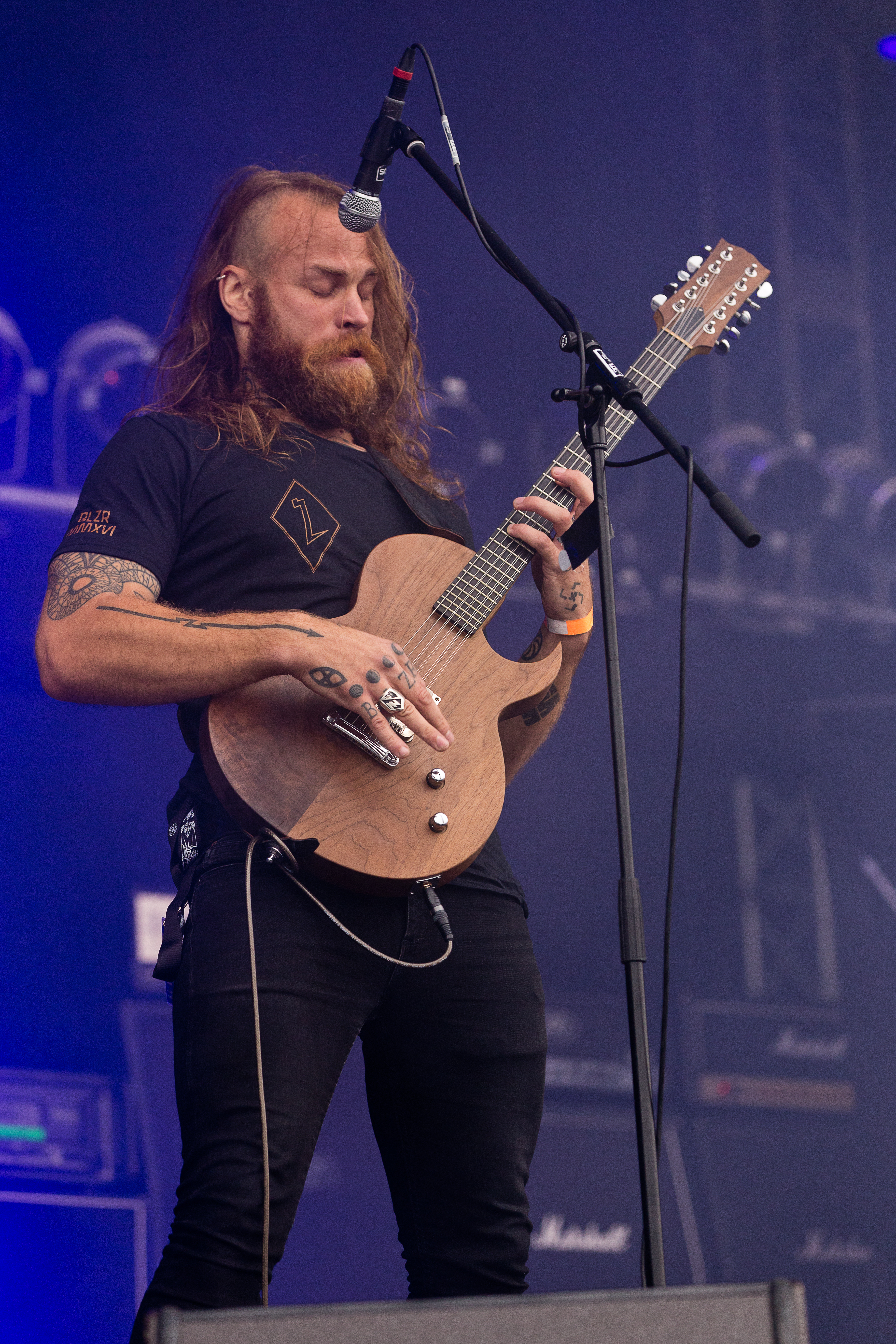 The Swiss death metal band Bölzer at the Party.San Metal Open Air 2016 in Obermehler-Schlotheim/Germany.